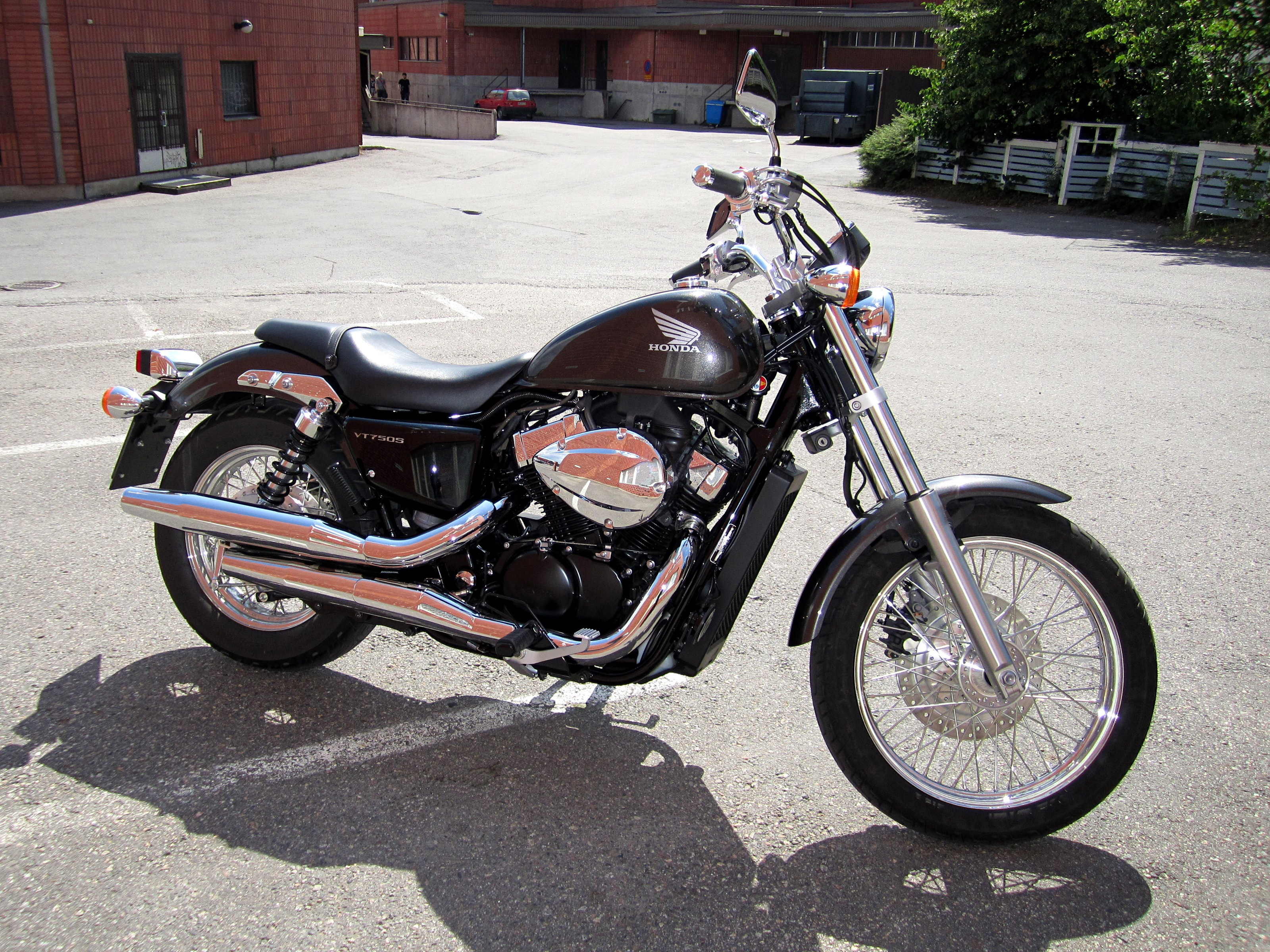 Honda's entry level custom bike VT750S Shadow (2011). 745cc V-twin with fuel injection.